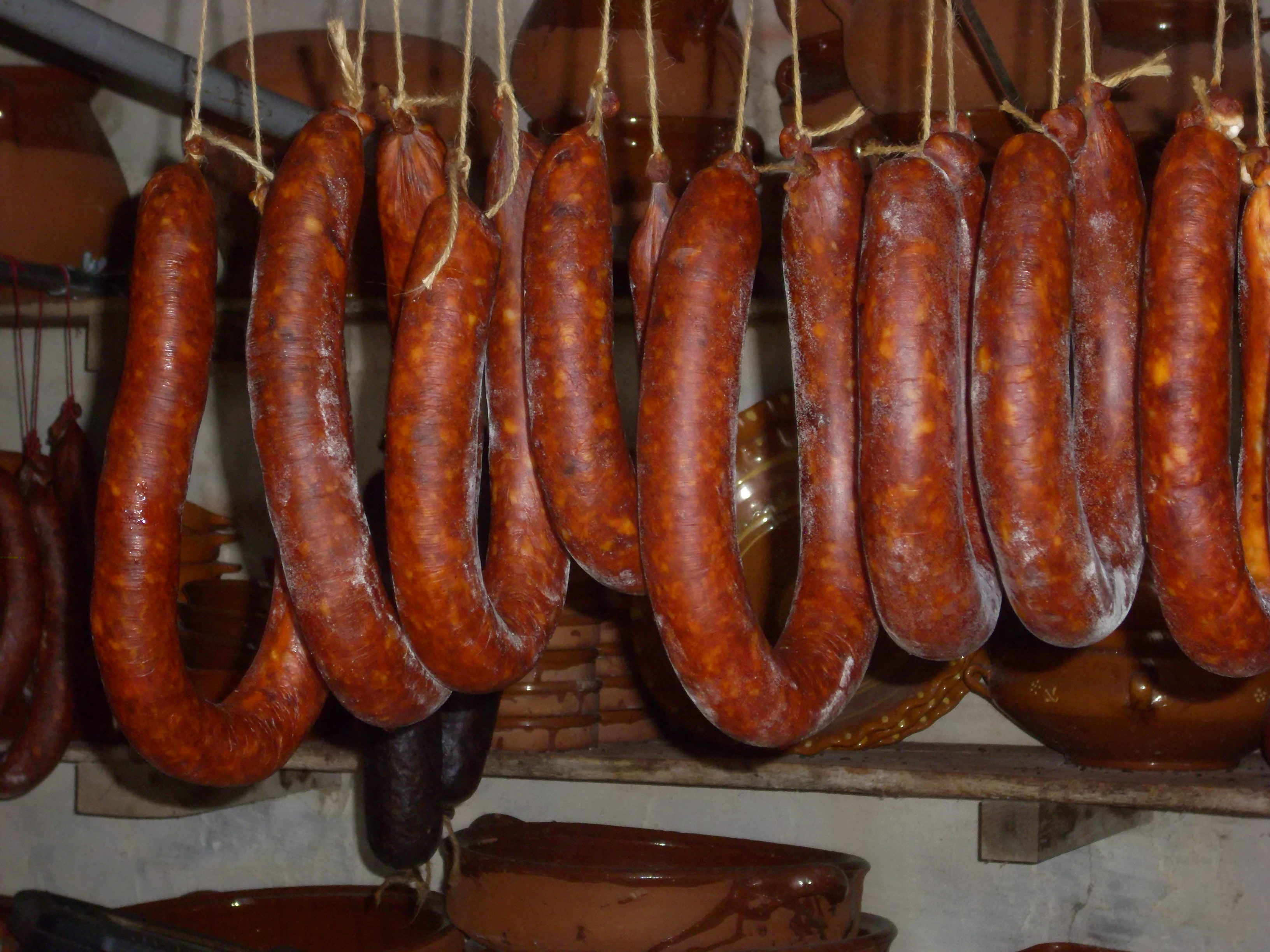 the origimal sobrasada of Ibiza